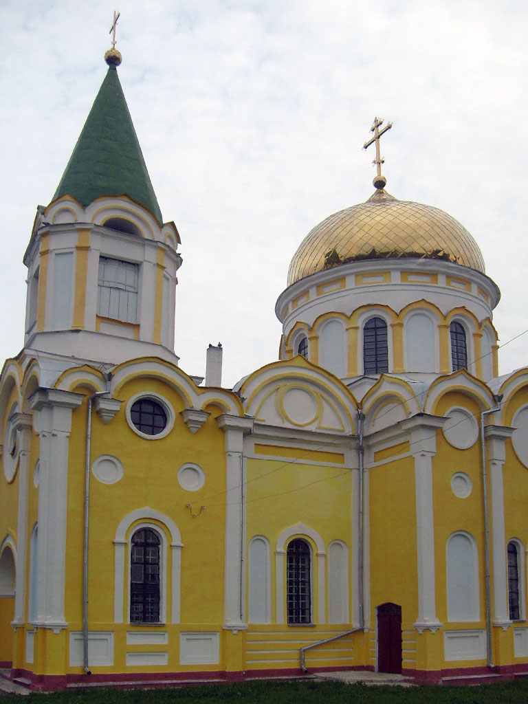 Orthodox church in Horki (Mahiliou region, Belarus)